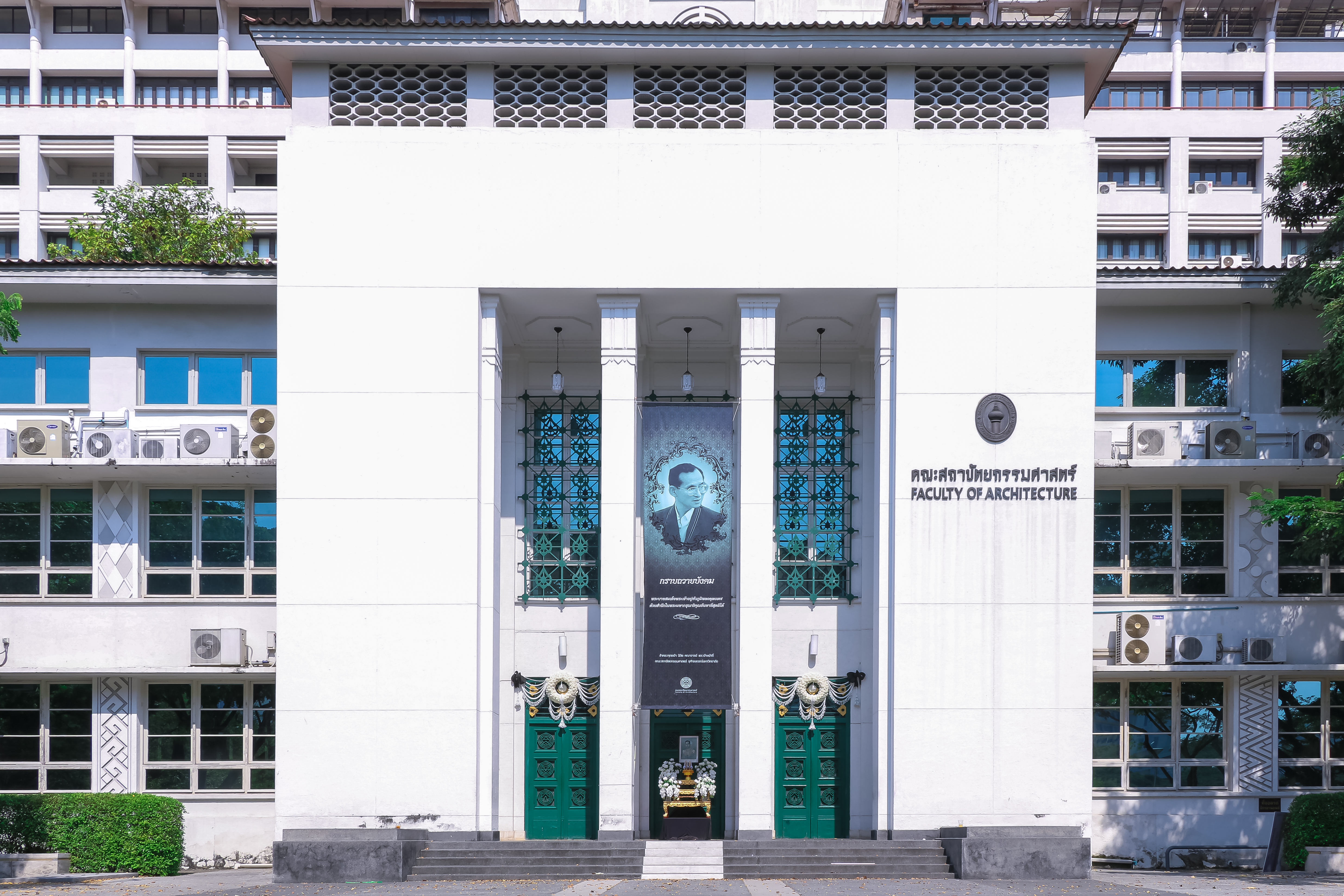 The first building for Architect students at faculty of architecture, Chulalongkorn University.